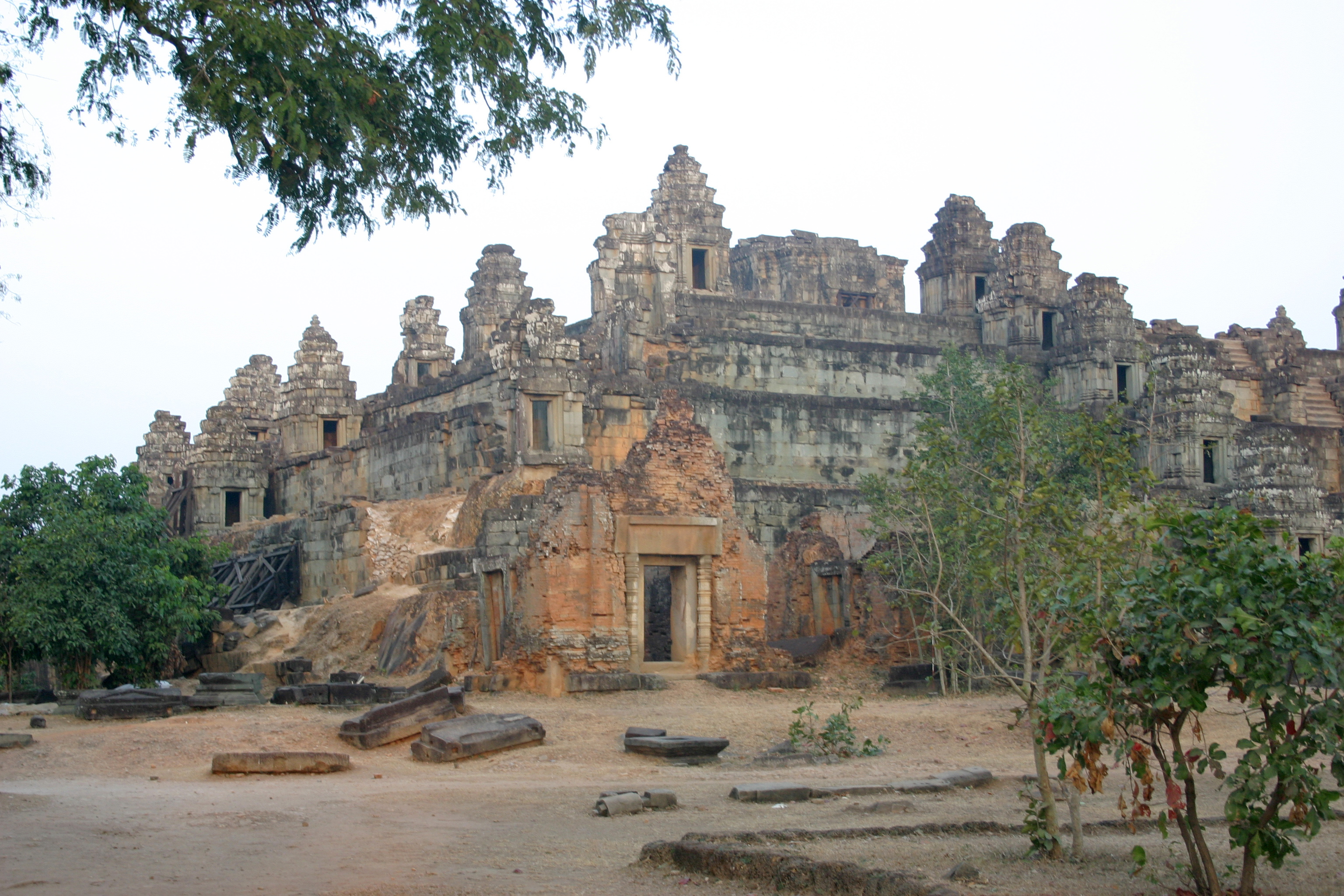 Phnom Bakheng temple in Angkor in Cambodia